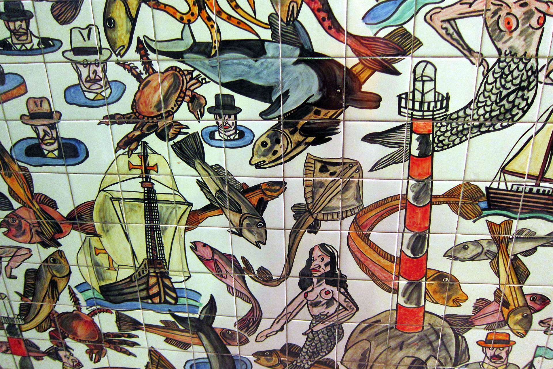 Detail of a set of two large scale ceramic tile panels caled The Oceans (1998) by Argentina-born, Paris-based artist Antonio Segui (b. 1934), installed at the Oriente Metro station in Lisbon. Detail of a set of two large scale ceramic tile panels caled The Oceans (1998) by Argentina-born, Paris-based artist Antonio Segui (b. 1934), installed at the Oriente Metro station in Lisbon. For another piece by Segui see photos of his painting Sombra y Luzat CAMB.